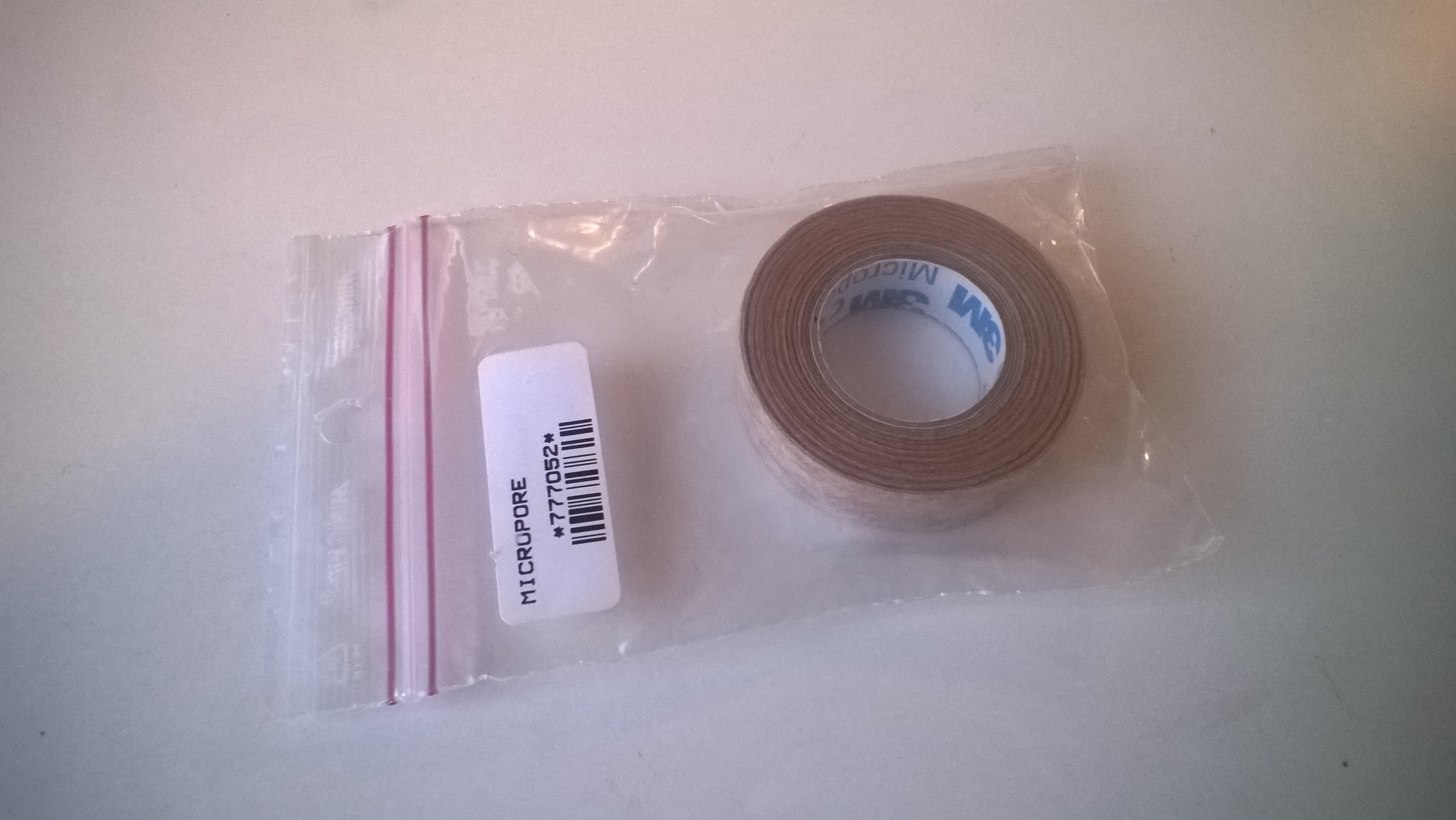 3M's MicroPore surgical tape. Sold in ziplock bag in pharmacy. Tape shows CE-mark, as required by EU directives.